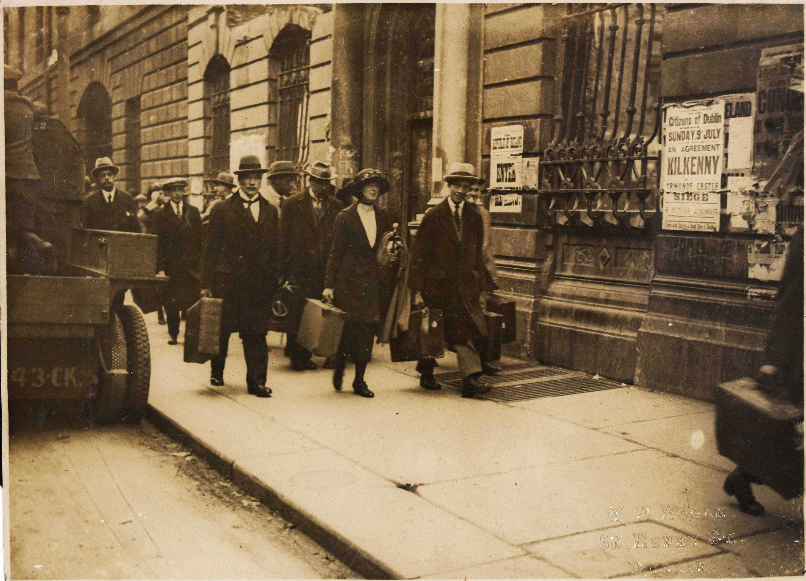 At the start of the Irish Civil War in 1922, the Battle of Dublin took place from 28 June to 5 July. This photo shows guests finally making their escape from the The Edinburgh Hotel at 56 Upper Sackville Street, now O'Connell Street. The Edinburgh Hotel was a temperance hotel, meaning that the beleaguered guests couldn't even resort to alcohol during their confinement! The following report is taken from the Irish Times on Thursday, 6 July 1922: "The Edinburgh Hotel, on the west side of Sackville street [now O'Connell Street], occupied a precarious position during the operations in that thoroughfare. Nevertheless, throughout the week about a dozen guests, with the staff, numbering as many more, remained in the building. Yesterday afternoon, when the hotel took fire, they were at last obliged to leave after they had been warned by the firemen of their danger. The small party, carrying various items of luggage, appeared at the front door, and, under a white flag, turned down towards the Nelson Pillar. They were at once turned into Henry street, where they were less exposed to fire, and when the troops were satisfied as to their bona fides, they were directed to go along towards Mary street, where they were held up. A newspaper representative who happened to be near took charge of the party, and explained their plight to the soldiers, who allowed them to pass through. They ultimately made their way to other hotels." NLI Ref.: HOGW 27